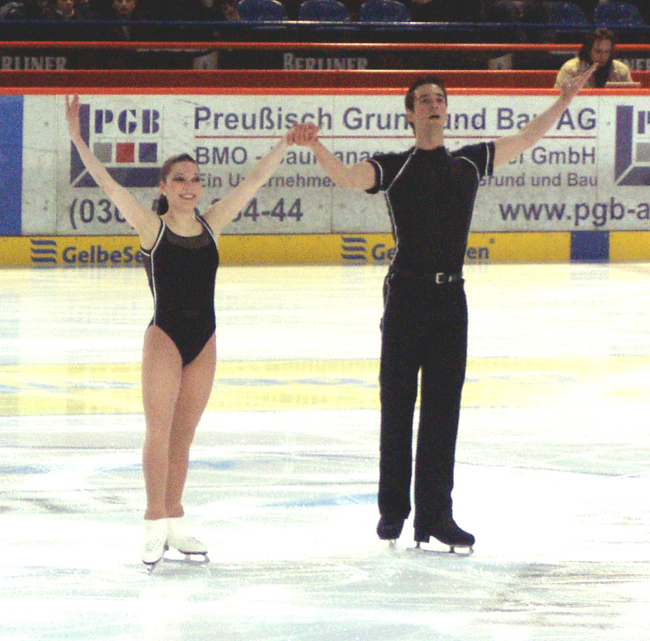 Eva-Maria Fitze and Rico Rex at the short program at the German championships 2006 in Berlin. A bit of her dress got lost during the program.